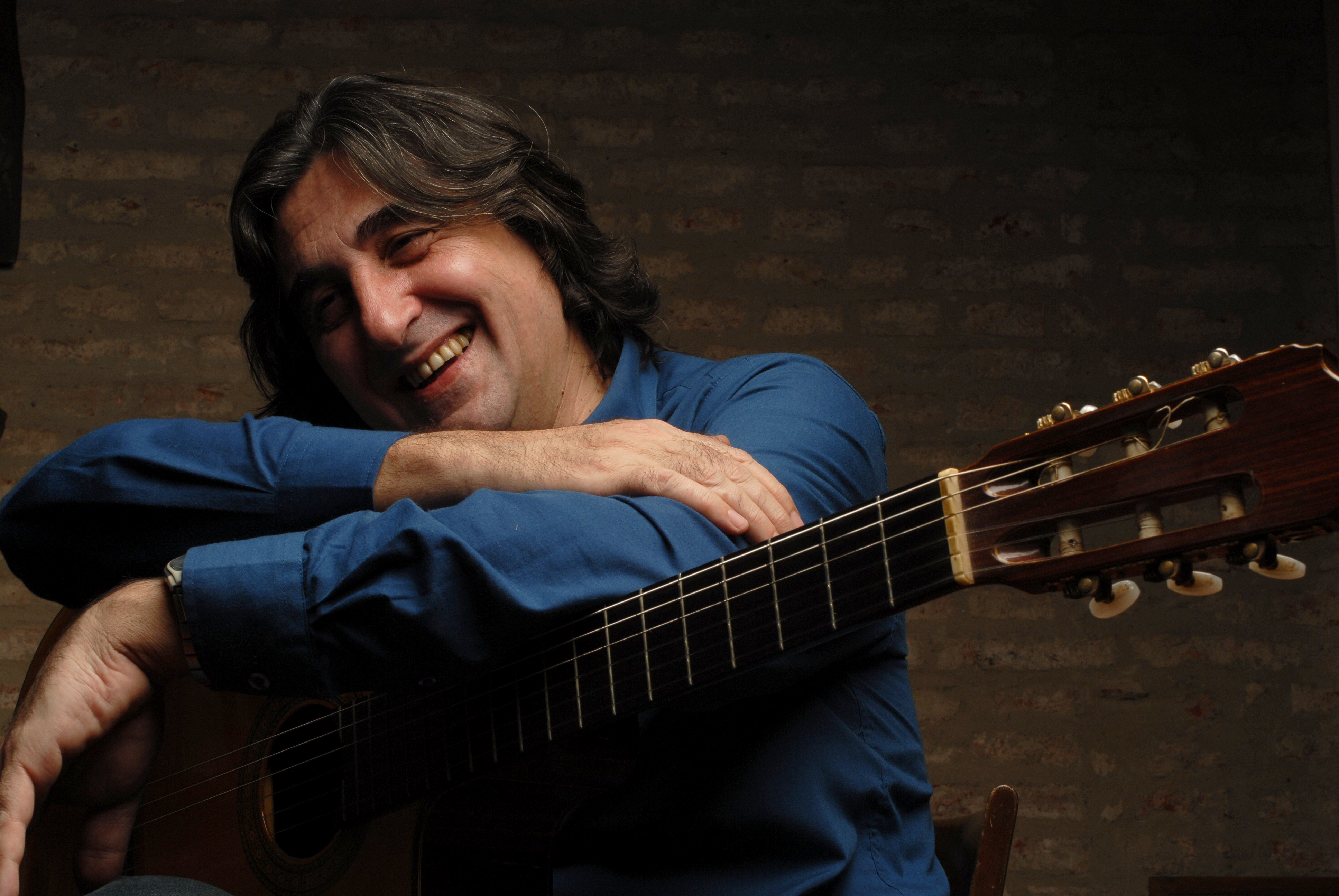 Foto para edición de cd.